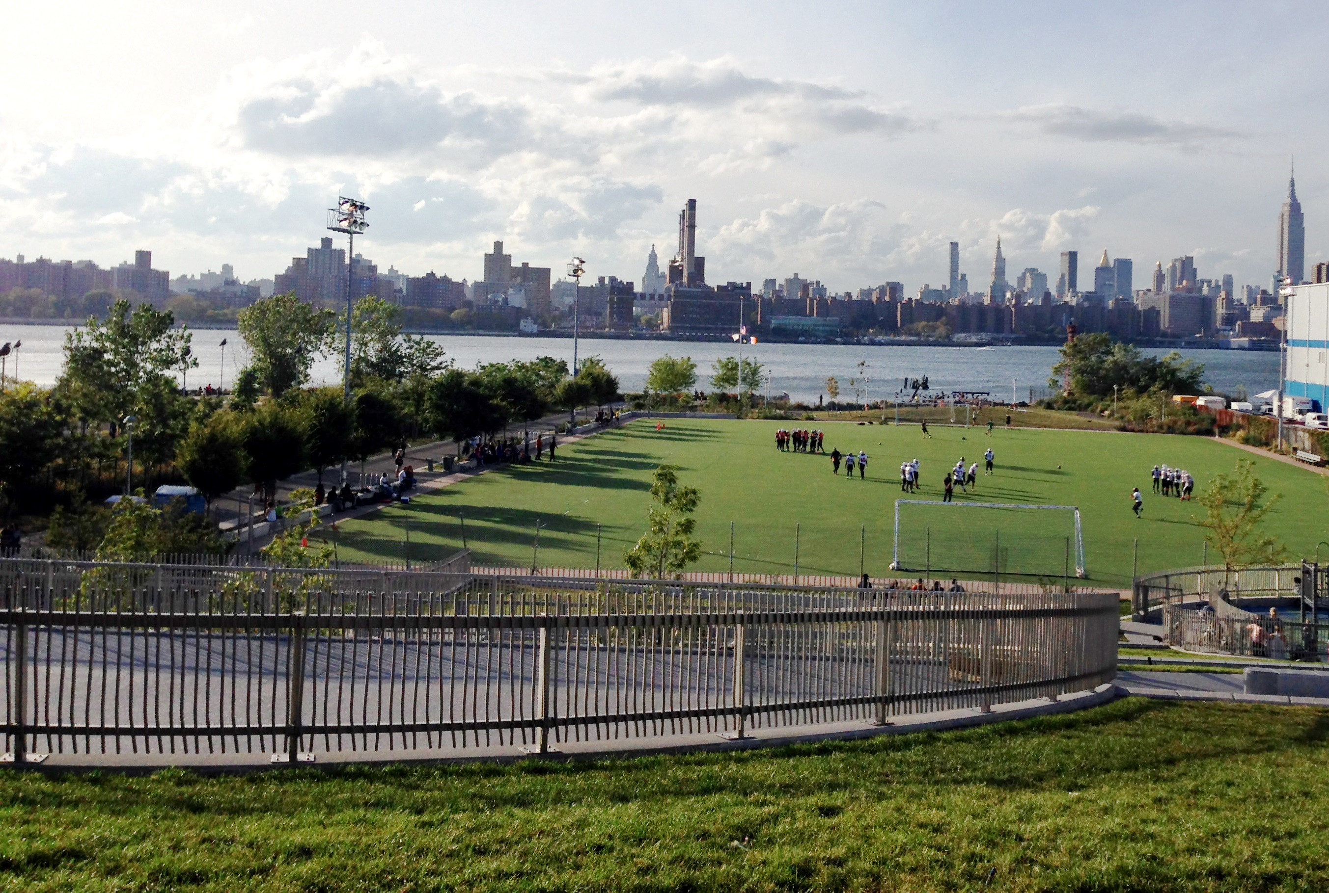 Bushwick Inlet Park from its community center's green roof.